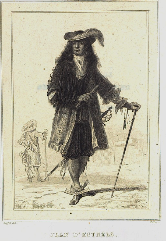 Jean d'Estrées. Vice-amiral du Ponant, Maréchal de France, printed in France, from Histoire de la marine française by Eugène Sue.